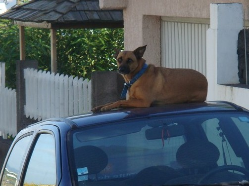 Royal Bourbon Dog - a mongrel or rather a heterogenous, highly variable dog type descended from Pariah type dogs and originated in Réunion. The original photo Prendre un peu de hauteur was taken by Michel Ethève and it was found in Flickr.